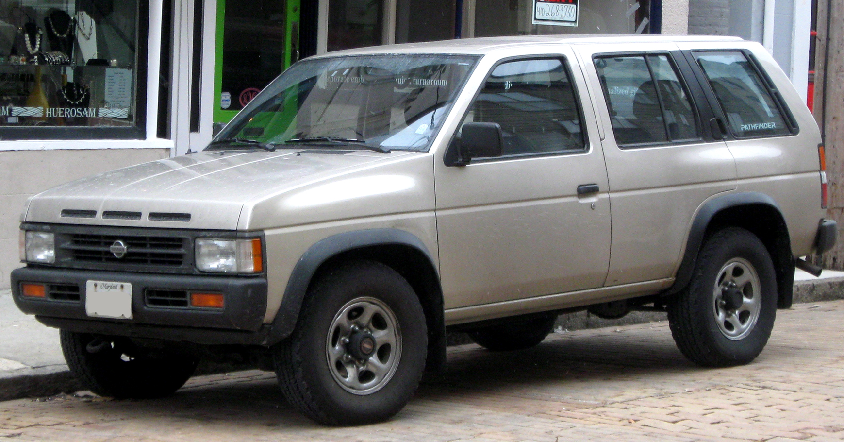 1993-1995 Nissan Pathfinder photographed in Annapolis, Maryland, USA.